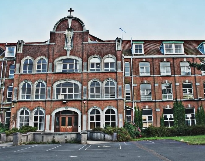 This is the main reception to Holy Cross, mixed sex Catholic school, Broadstairs, Kent, England